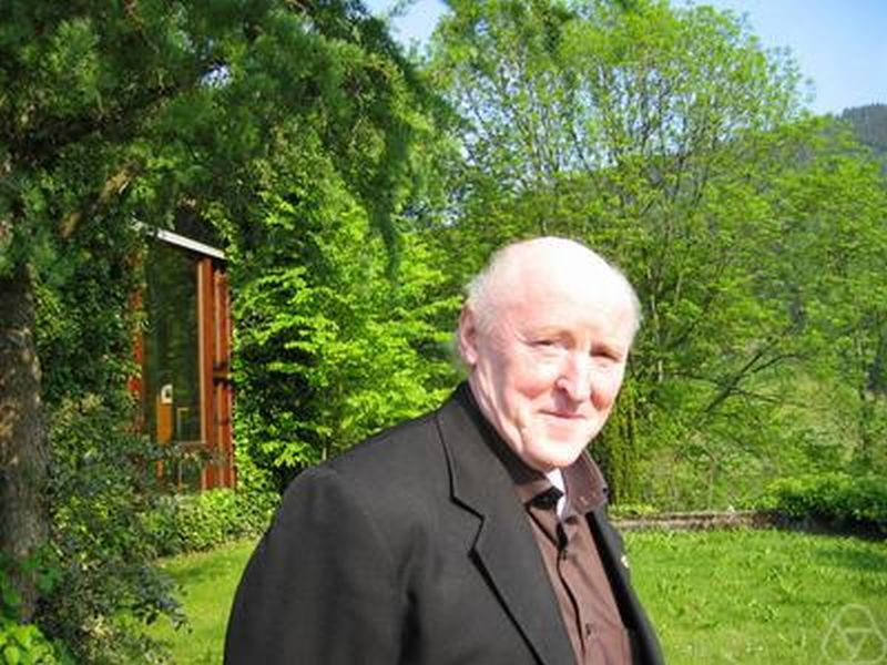 Albert N. Shiryaev, Oberwolfach 2004